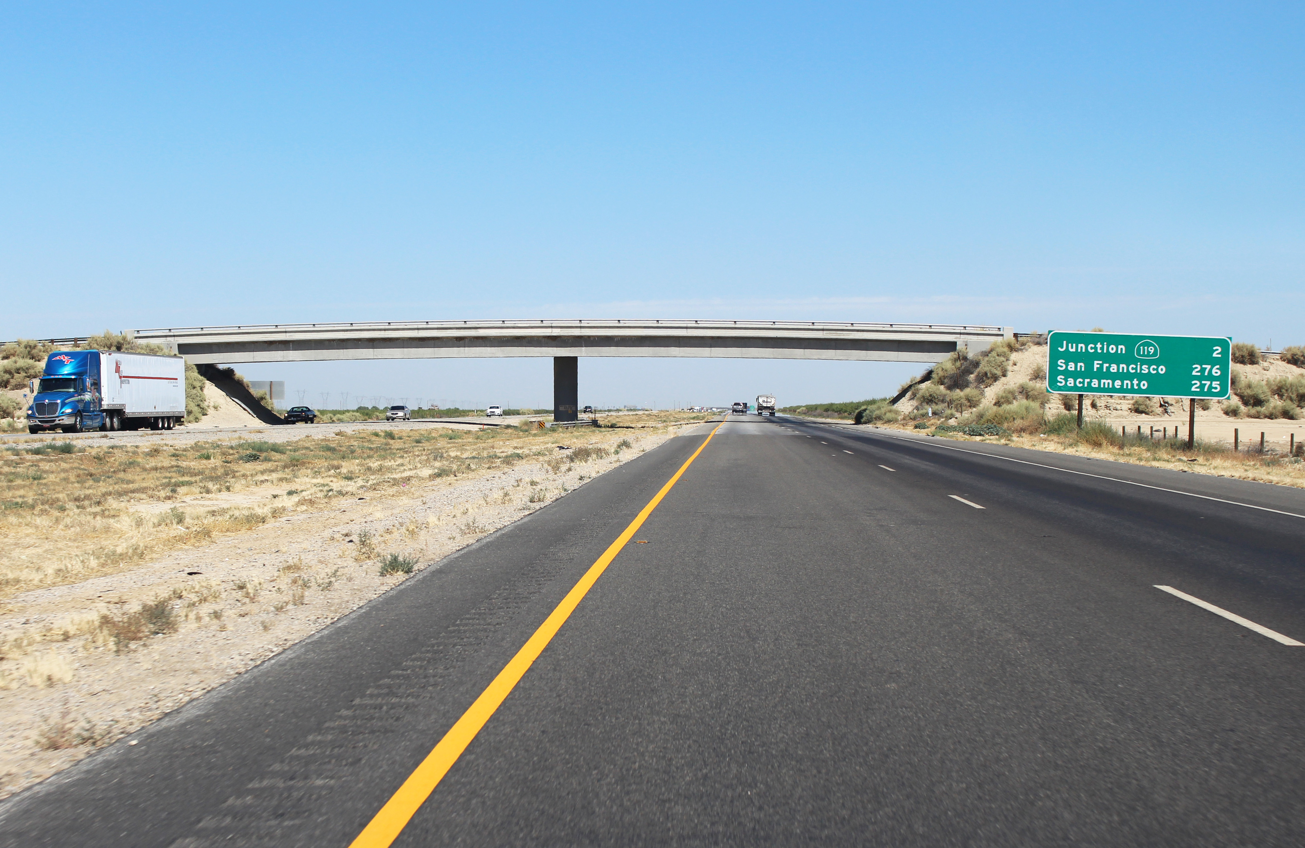 Interstate 5 northbound in the Central Valley. The section shown is at an overpass for an unnamed frontage road following the Buena Vista Canal in Kern County. The photo was taken approximately at 35°14'13.2"N 119°11'32.3"W.